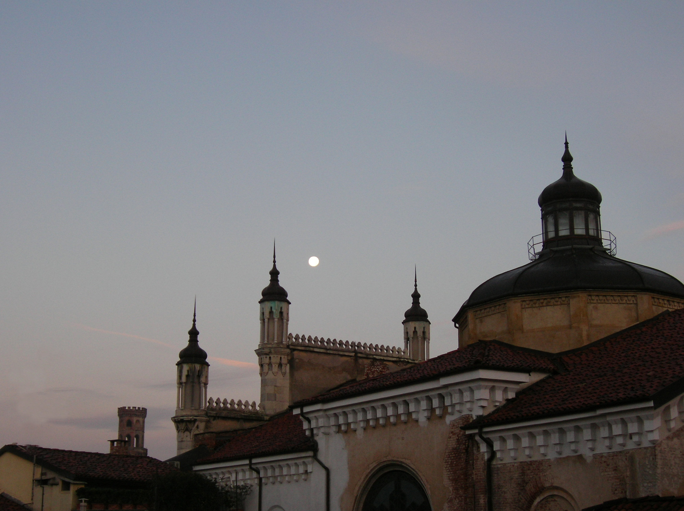 Sinagoga Vercelli